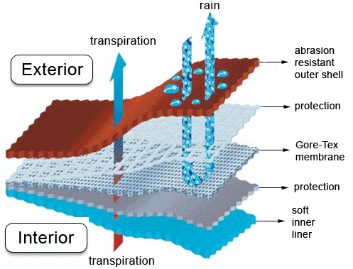 Schematic diagram of composite Gore-Tex fabric